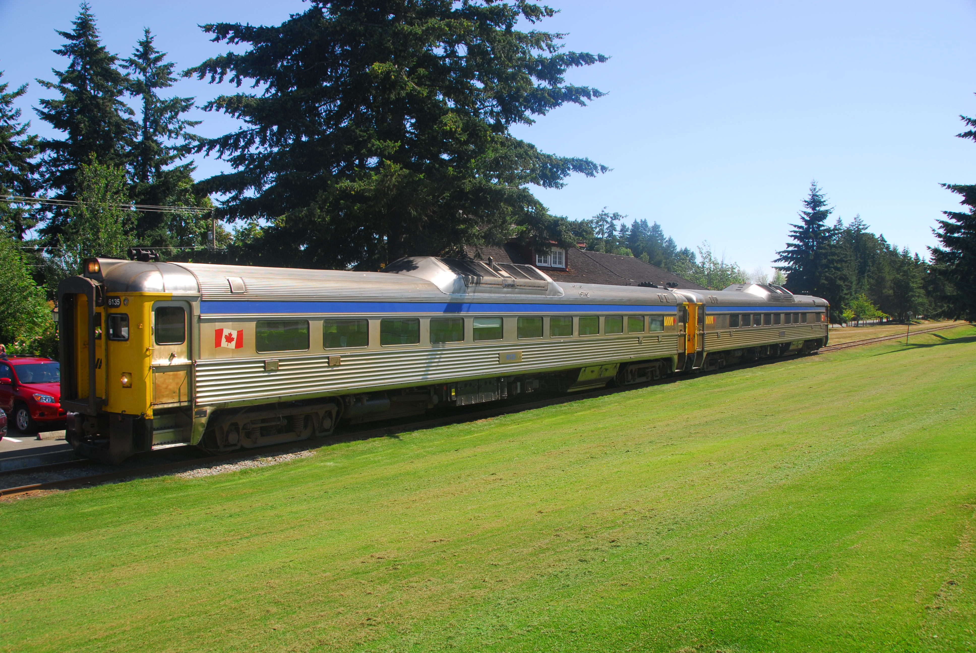 Qualicum Beach Station on the Southern Railway of Vancouver Island in Qualicum Beach, British Columbia, Canada. The daily Malahat VIA Rail service using a Budd RDC-1 diesel multiple unit has stopped.